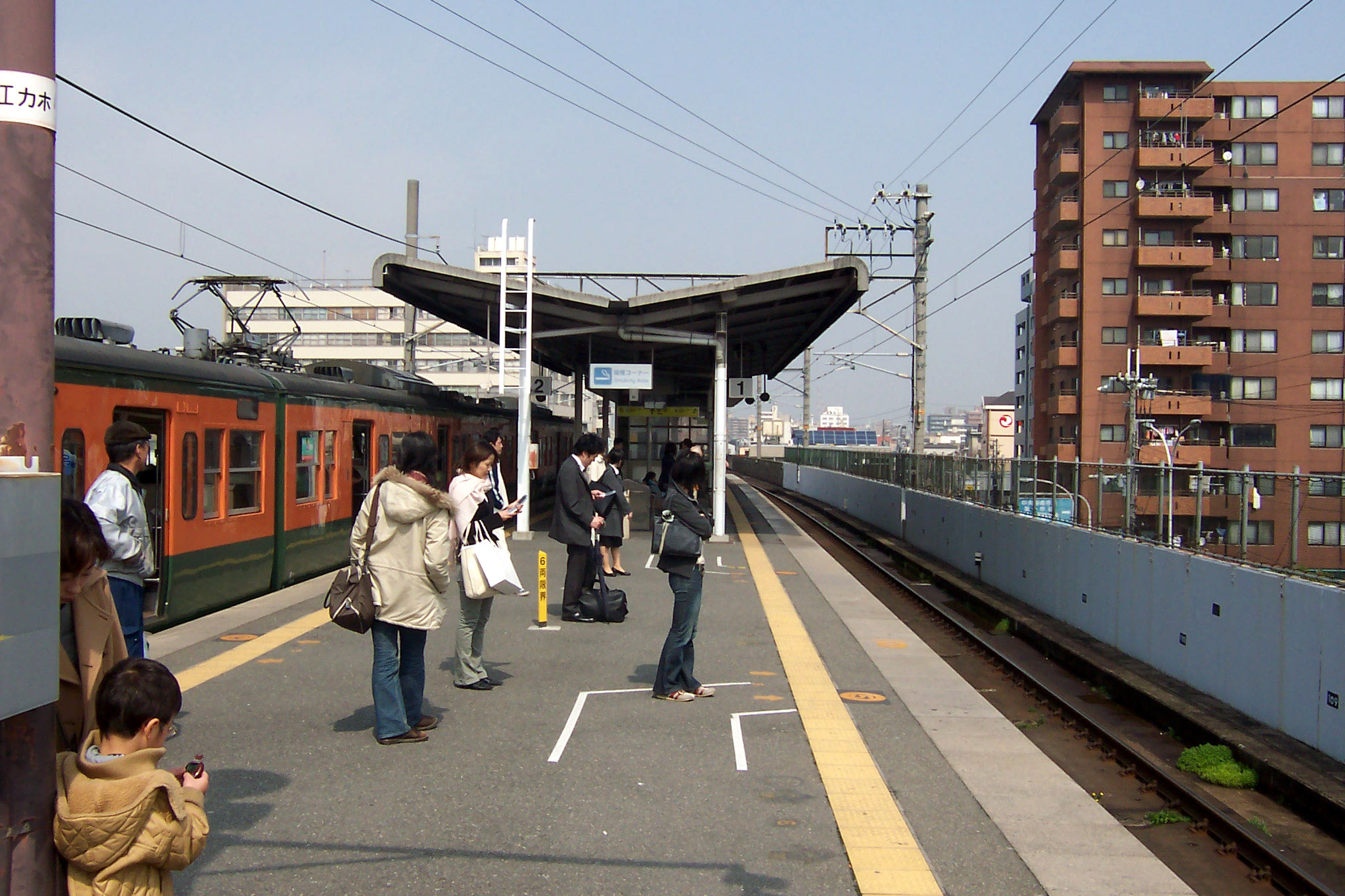 Platform of Tambaguchi (Tanbaguchi) Station on the Sanin Main Line railway in Kyoto, Japan (京都市、山陰本線丹波口駅プラットホーム)